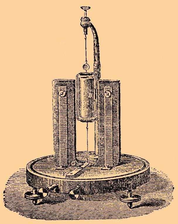 D'Arsonval galvanometer. A fragment of the illustrations for the article "galvanometer" from Brockhaus and Efron Encyclopedic Dictionary